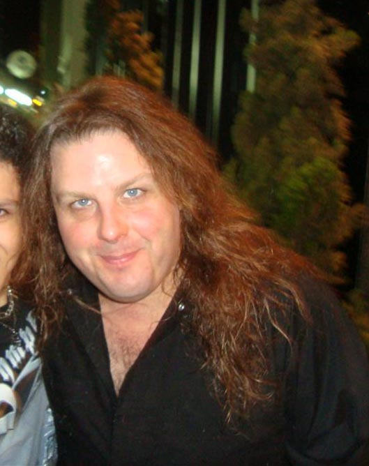 Romeo and fans at Curitiba, Brazil on October 22, 2008